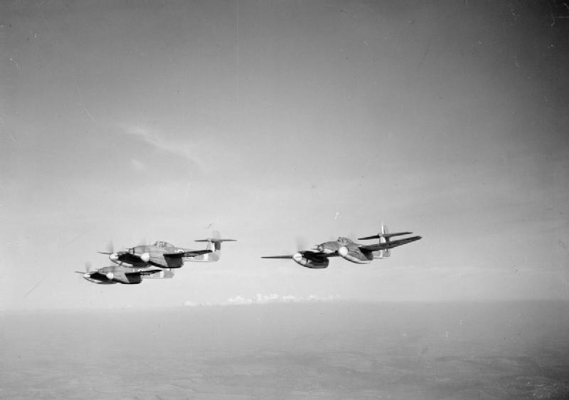 Westland Whirlwinds of No 263 Squadron in flight, December 1940.